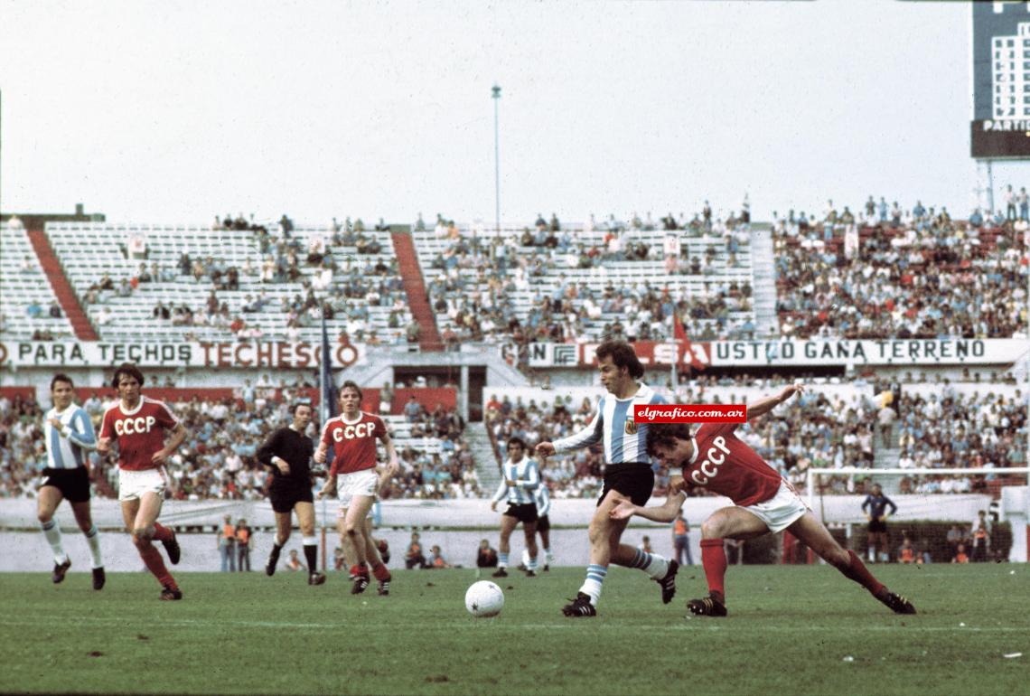 Argentina vs USSR in Buenos Aires, the match ended 0-0.